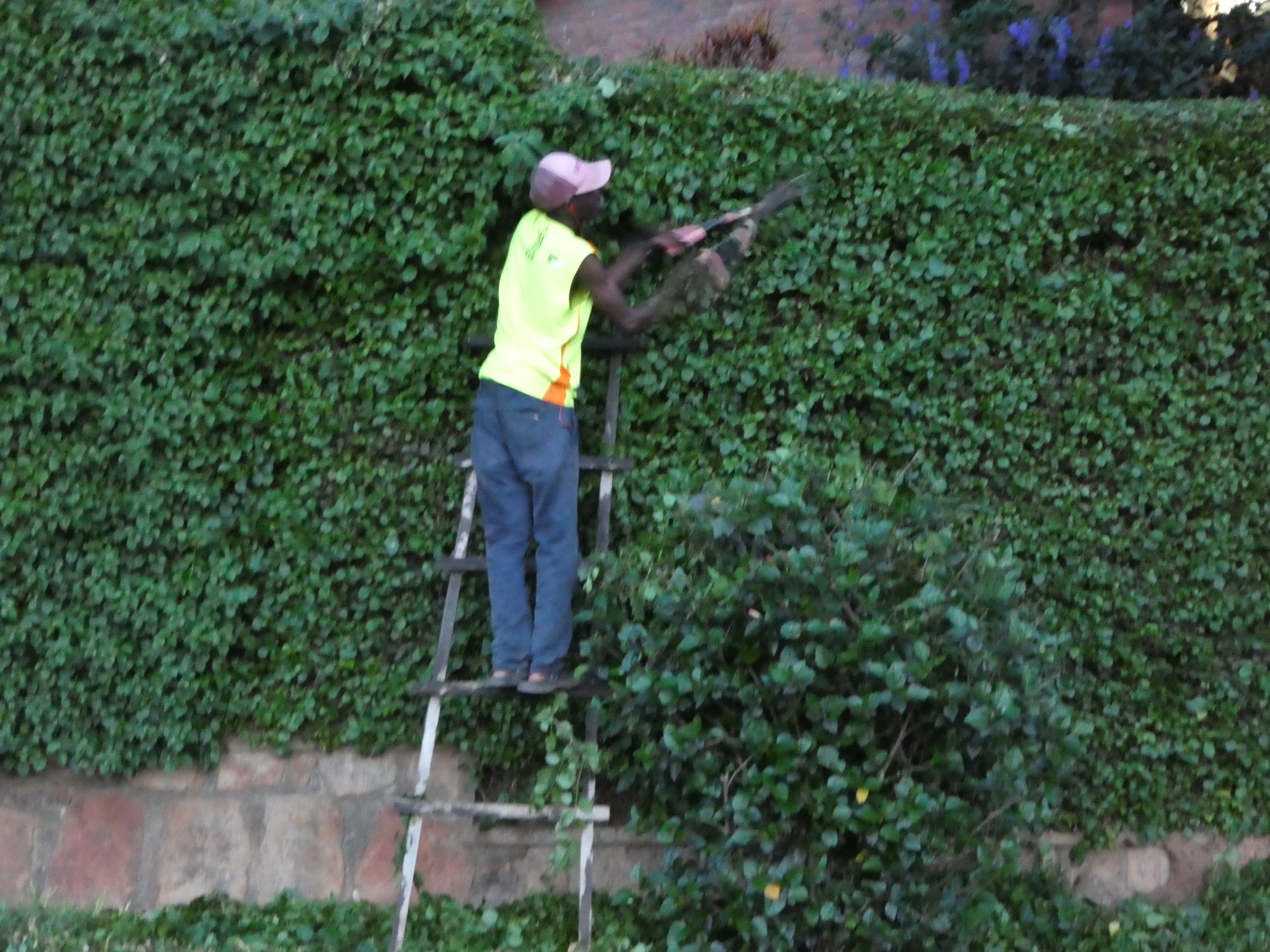 This is an image of "African people at work" from Rwanda